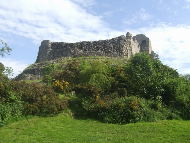 Montgomery Castle The castle was built in 1227 near the Welsh border in a prominent position overlooking the River Severn. During the Civil War in 1644 it was beseiged and captured by Parliamentary forces. A Royalist army attempted to recapture the castle but was met by a relieving force and defeated on the fields beside the River Camlad. Parliament ordered the castle to be destroyed in 1648 and this was done by its owners. Parts of the newly built hall were rescued and re-used in other buildings.